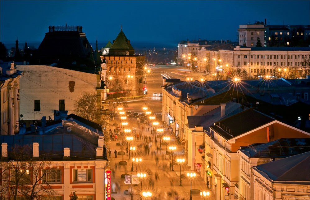 Bolshaya Pokrovskaya street in Nizhny Novgorod.